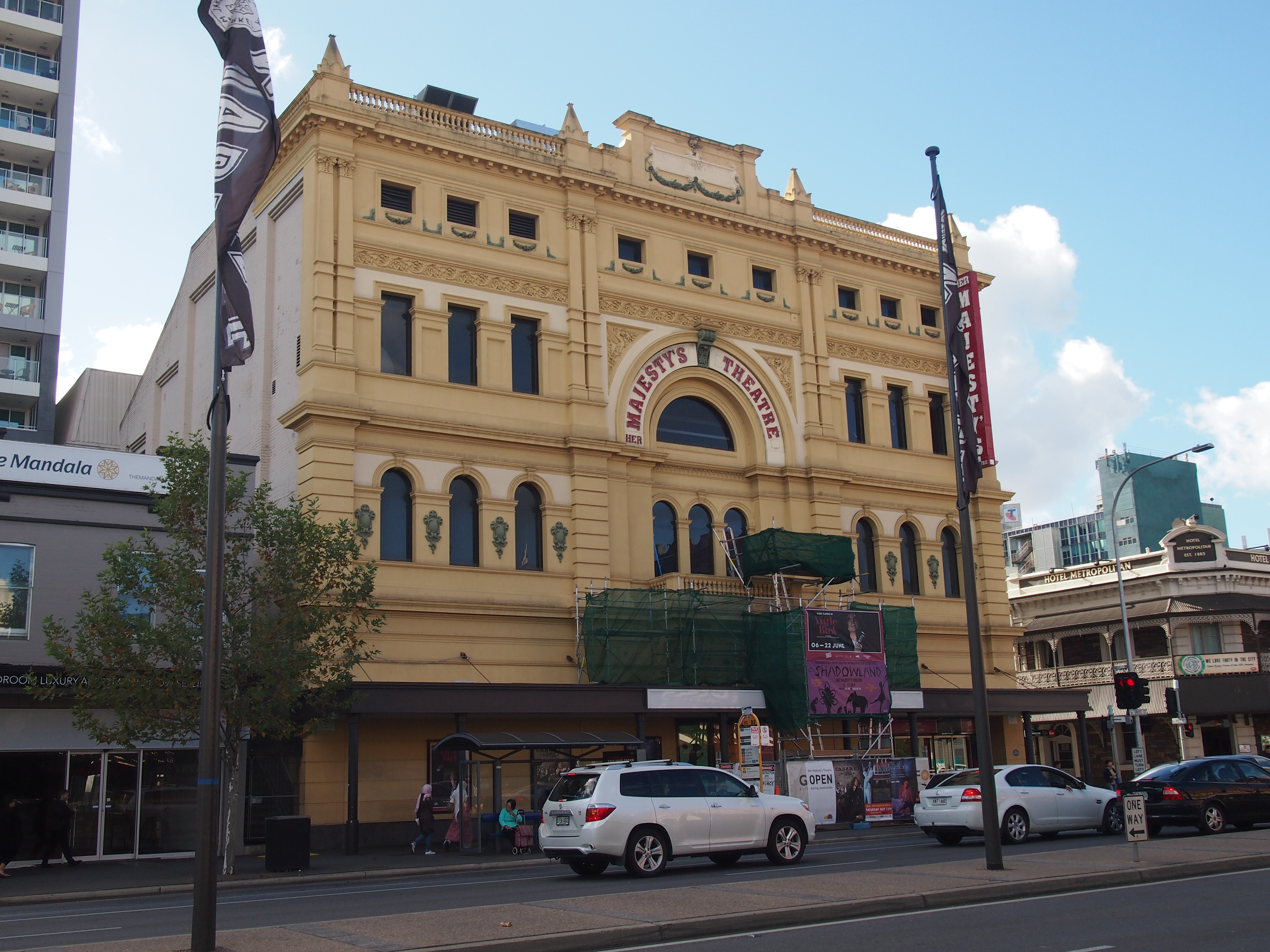 Her Majesty's Theatre, Grote Street, Adelaide Original filename = P6072629.JPG